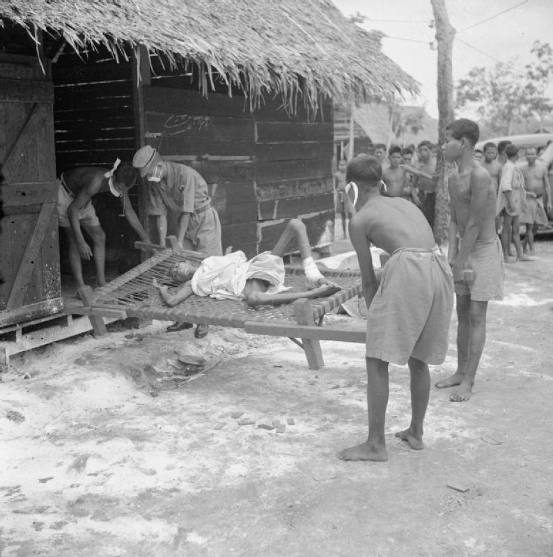 The British Reoccupation of Singapore A Javanese labourer suffering either from beri-beri or dysentry is carried into a hut in a labour camp near Seletar soon after its liberation by British forces.